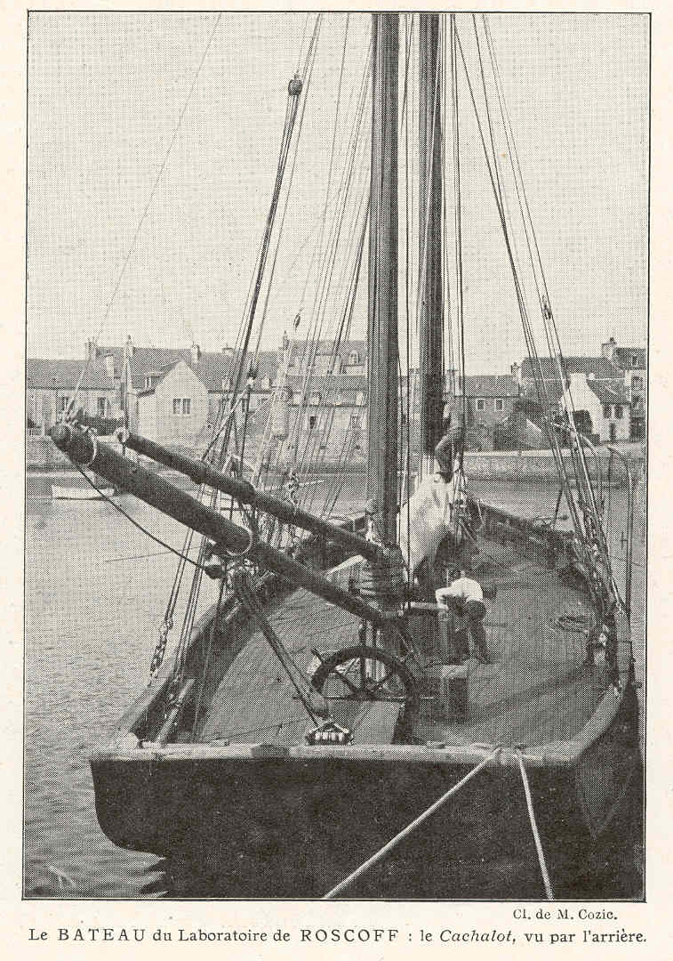 Subject: Cachalot (Ship), Marine laboratories--France, Laboratoire de Biologie Maritime de Roscoff (France) Tag: Vessels